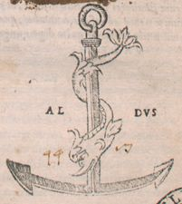 Manuzio's mark